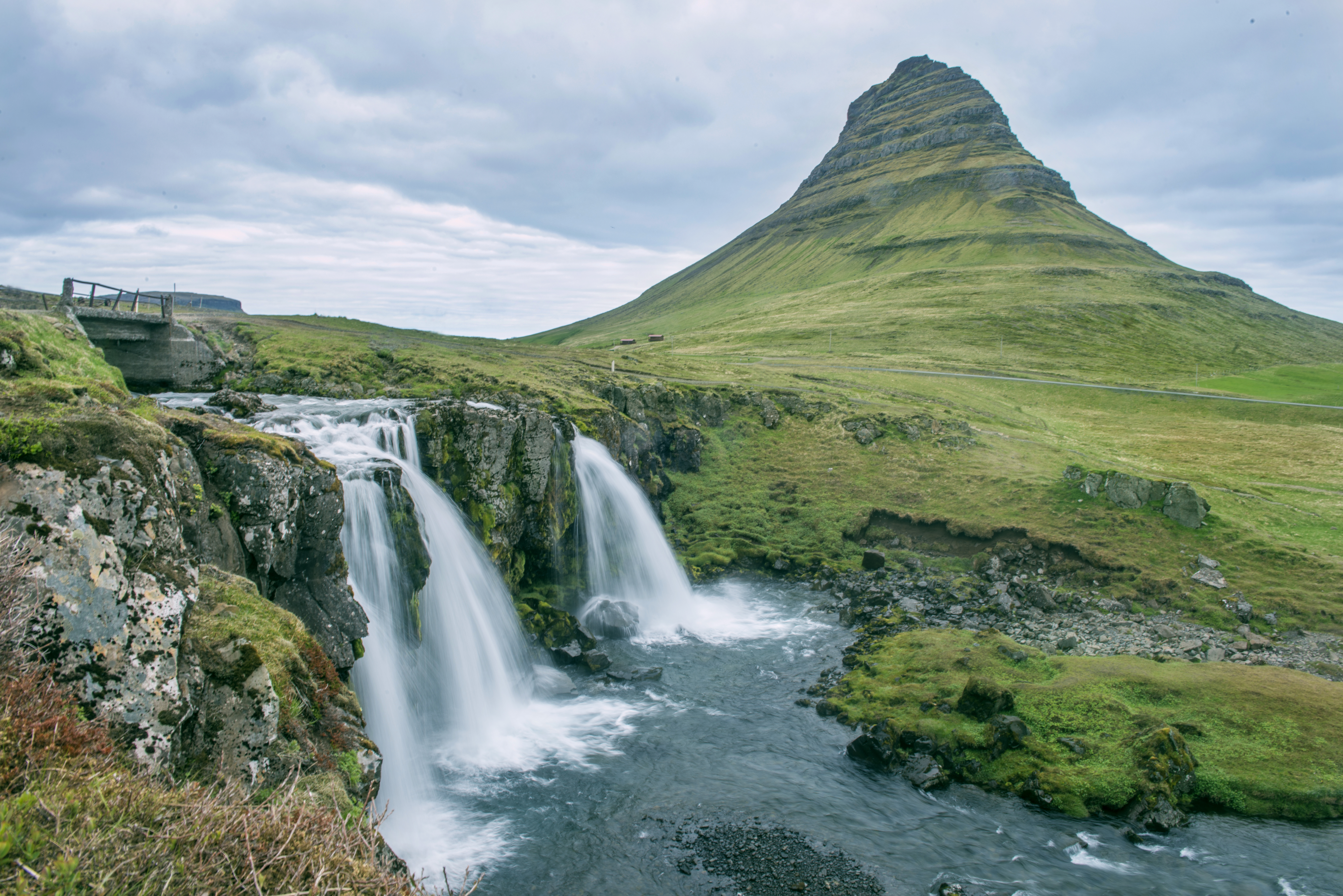 The Kirkjufell mountain in Iceland on a cloudy day.